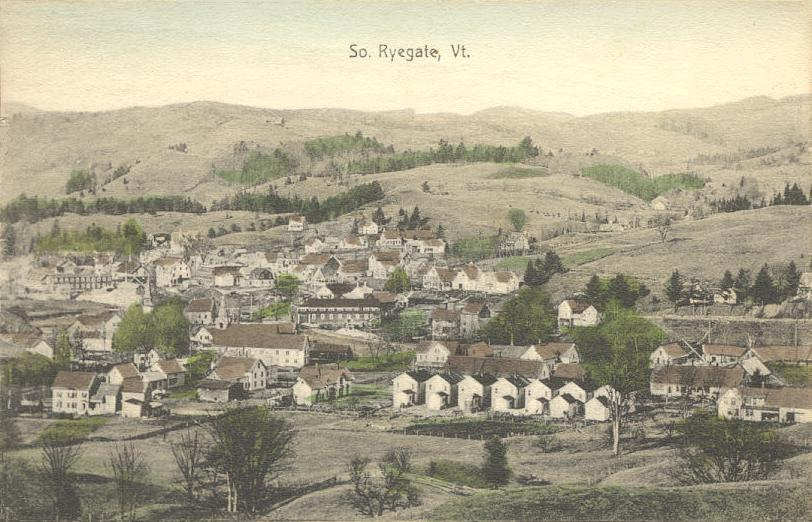 View of South Ryegate, Vermont; from a 1909 postcard published by B. I. Terry.